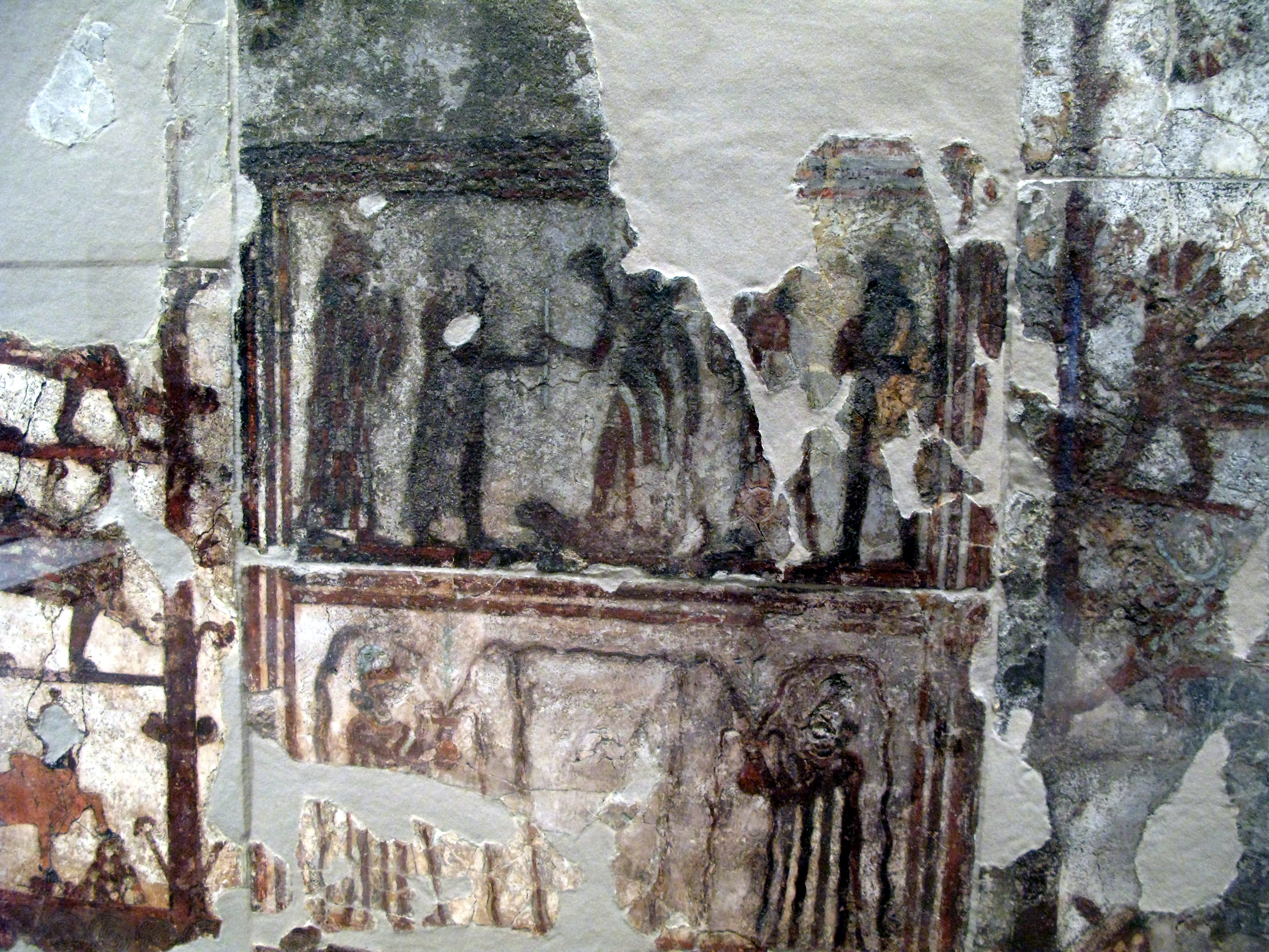 ArtistUnknownDescription Fresco of the investiture of Zimri Lim [1] 19th century BC, Royal palace of Mari Current location (Inventory)Louvre Museum Native nameMusée du LouvreLocationParisCoordinates48° 51′ 37″ N, 2° 20′ 15″ E Established1793Website control : Q19675 VIAF: 257711507 ISNI: 0000 0001 2260 177X ULAN: 500125189 LCCN: n80020283 NLA: 35912436 WorldCat Richelieu Rez-de-chaussée Mésopotamie, IIe et Ier millénaires avant J.-C. Salle 3Accession numberAO 19826Credit lineFound by A. Parrot, 1935 - 1936Source/PhotographerRama Fresco of the investiture of Zimri Lim [1] 19th century BC, Royal palace of Mari